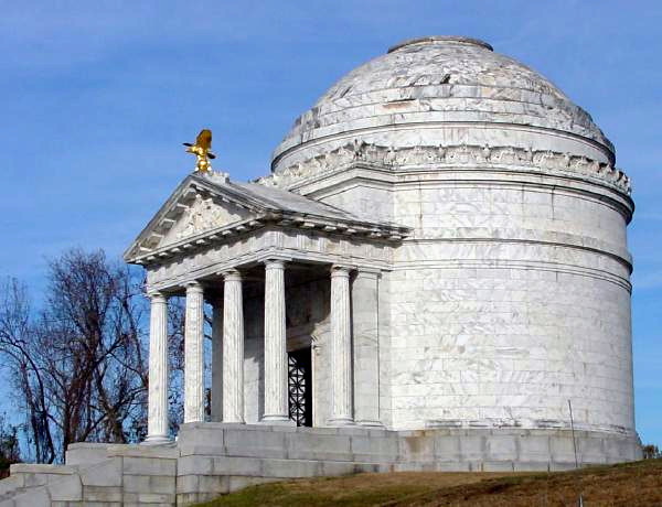 The Illinois State Memorial in Vicksburg National Military Park. Photo by Eoghanacht taken on December 9, 2005. Building's coordinates: . The structure was modeled after Rome's Temple of Minerva Medici and the Pantheon; it was dedicated on October 26, 1906.